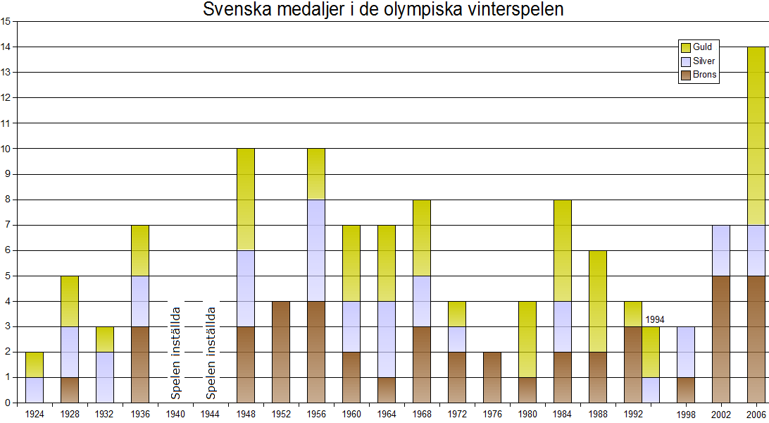 Swedish medals in the winter olympics